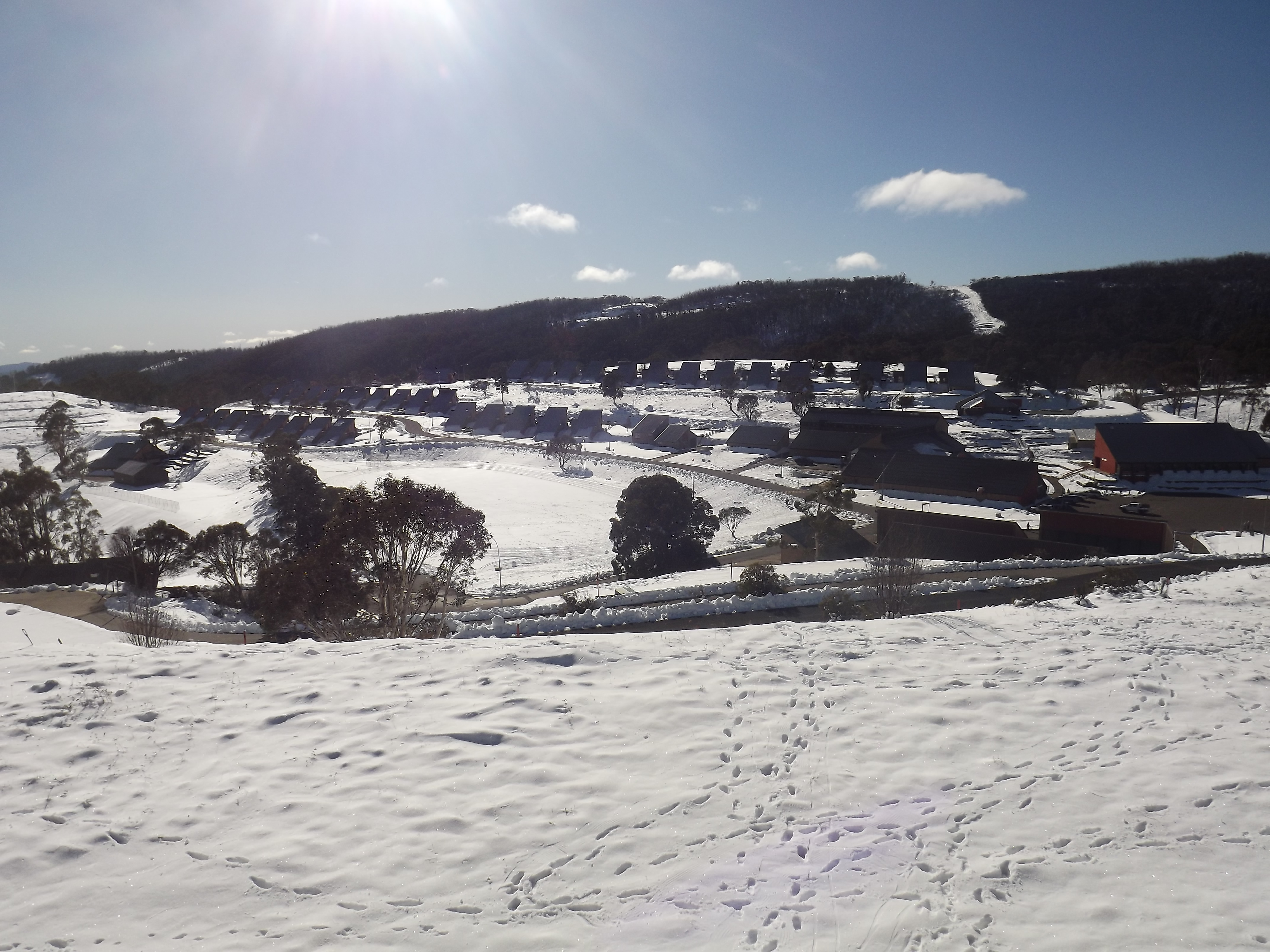 Picture of cabramurra